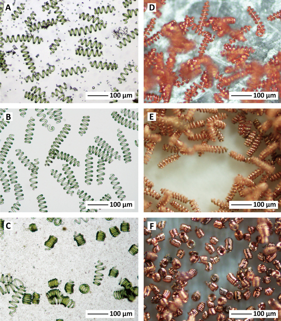 Right-handed (RH) Spirulina and their biotemplated products. RH template-1 to -3 with three different Lfree/Ns, (a) – (c), generated the corresponding RH μcoils: (coil number, Lfree/N); (d) RH μcoil-1, 19 μm; (e) RH μcoil-2, 14 μm; (f) RH μcoil-3, 6 μm.